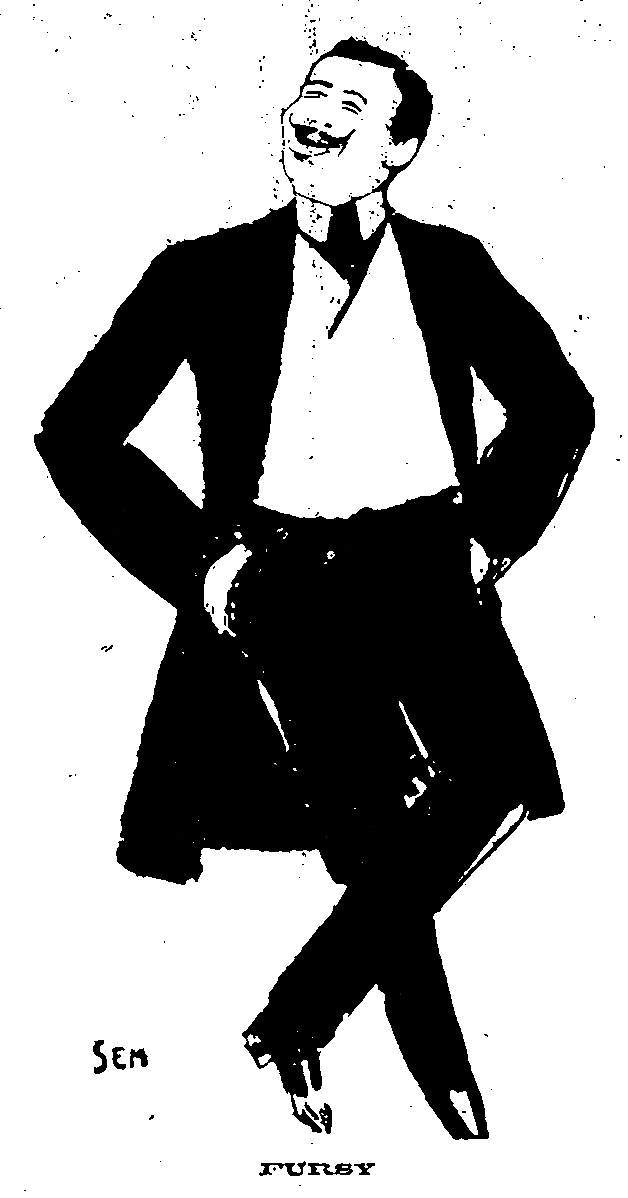 Caricature of Henri Fursy in "Le Figaro"